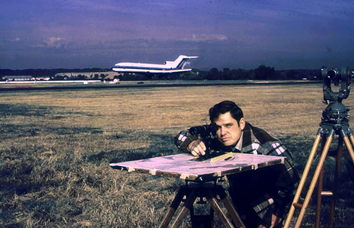 Plane table work with airport survey. Probably early 1960's. Probably some of the last plane table work done in the C&GS.